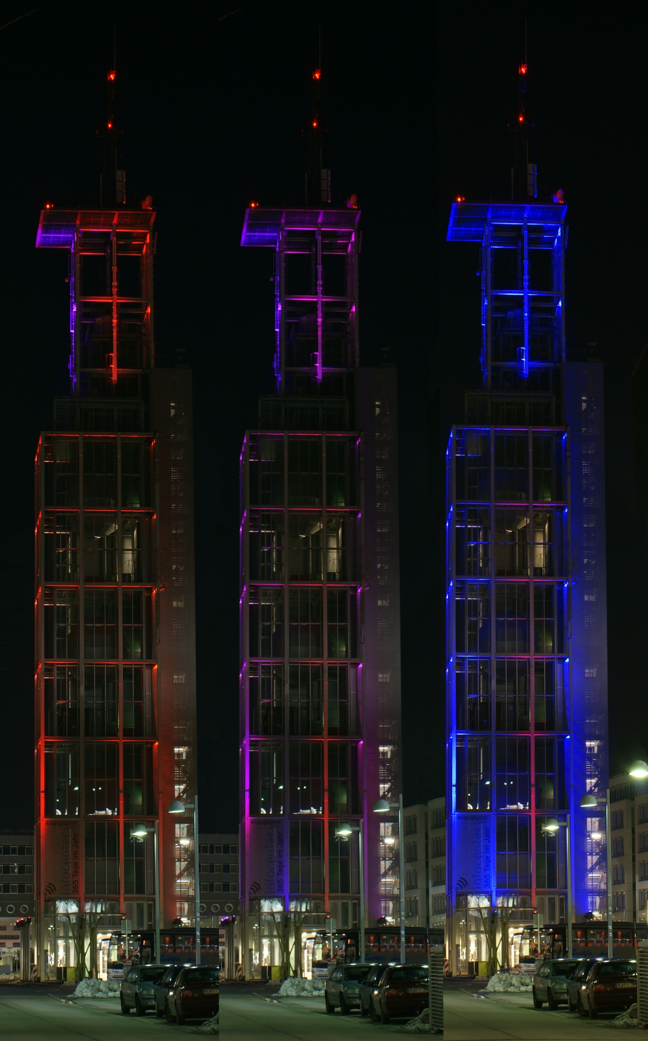 The "Klangturm" in St. Pölten, Austria. Its luminated at night in changing colours.